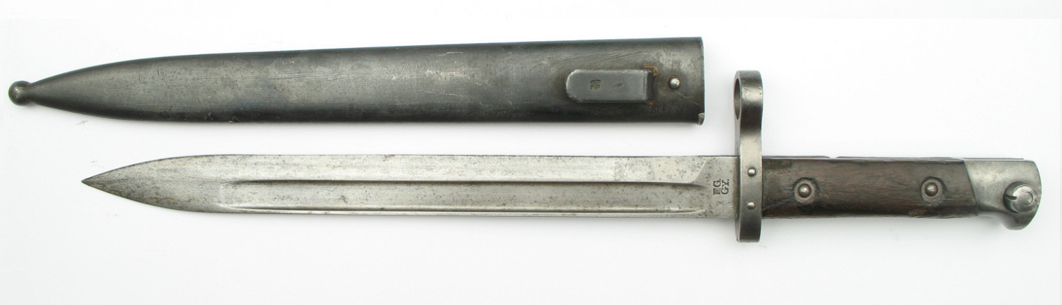 Mannlicher M1895 Bayonet